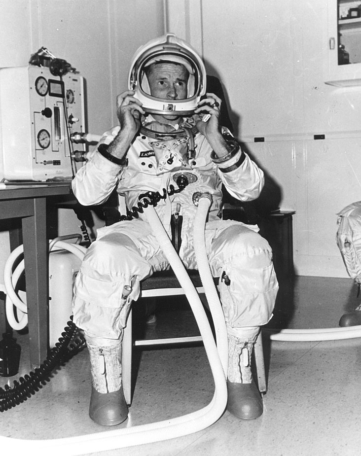 Astronaut Edward White, senior pilot for NASA's Apollo/Saturn 204 mission is being checked out in the altitude chamber at Kennedy Space Center.